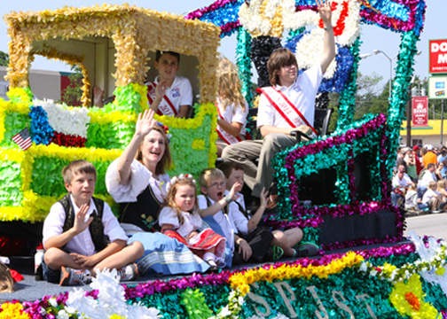 This is a photo taken from the parade at the National Polka Festival in Ennis, Tx. Other information All permissions and releases were obtained by the people in the photos and an email from the owner of the photo stating that this photo is free to be published was sent to .